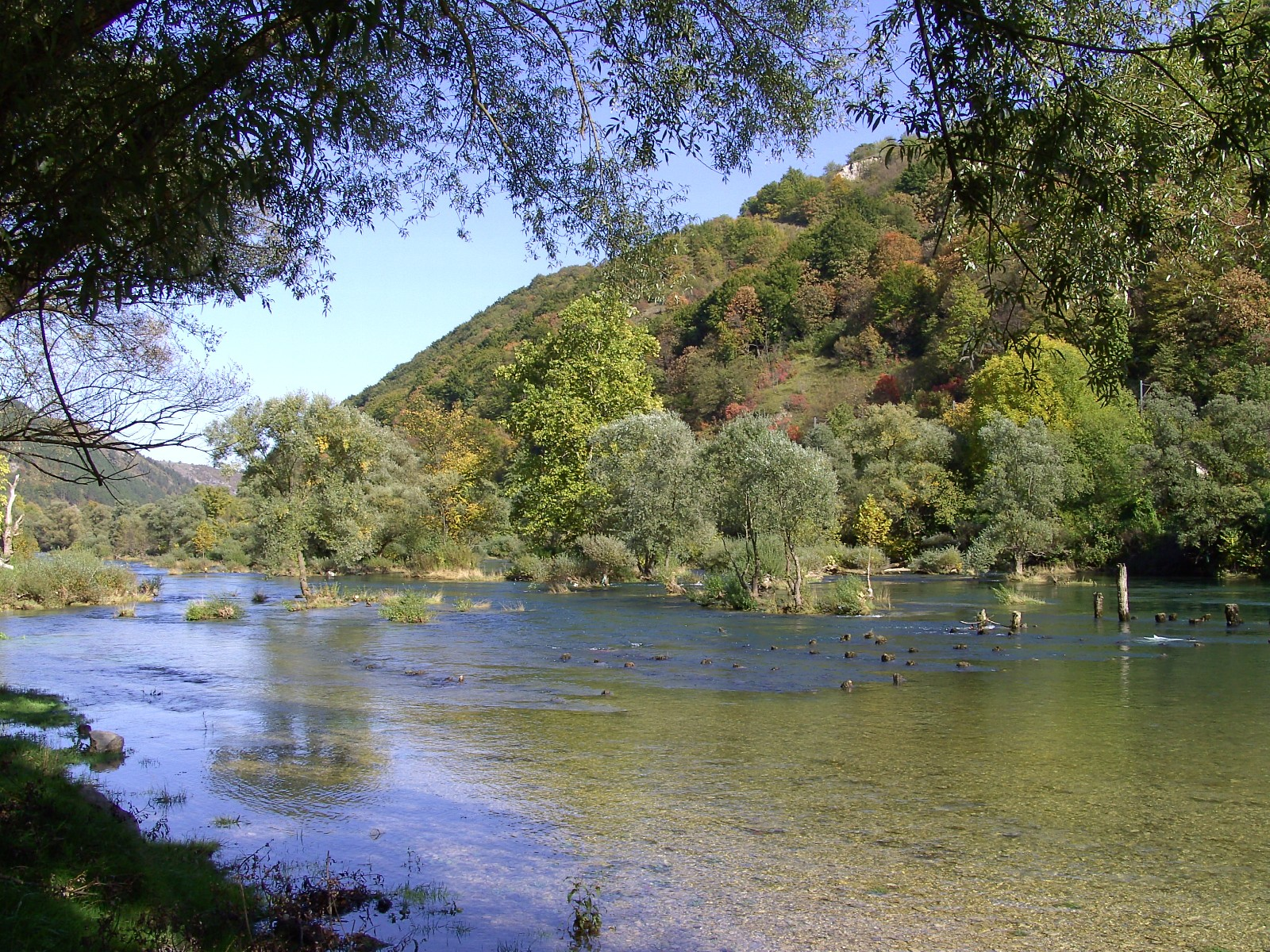 Una River in western Bosnia-Herzegovina